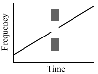 A visualisation of an auditory illusion (Continuity of tones).